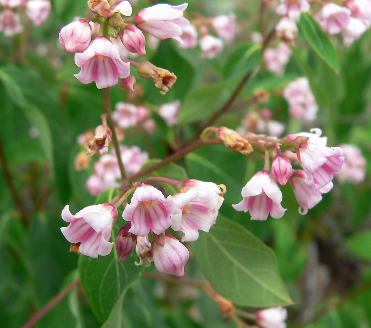 Apocynum androsaemifolium var. androsaemifolium alongside the first part of the South Loop trail, Kyle Canyon, Spring Mountains, southern Nevada (elev. about 2400 m)